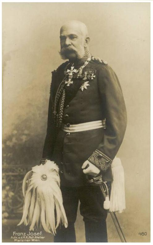 Emperor Franz Joseph I in German Uniform